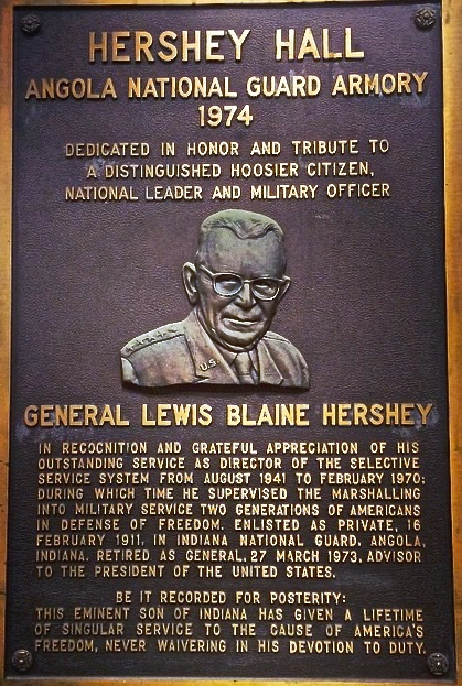 Lewis Blaine Hershey (September 12, 1893 – May 20, 1977) was a United States Army general who served as the second Director of the Selective Service System, the means by which the United States administers its military conscription.